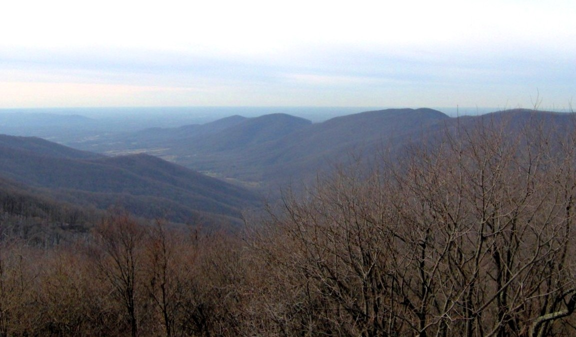 The view west from the Frozen Head observation platform at Frozen Head State Park in the Cumberland Mountains of Tennessee, in the southeastern United States. The western flank of Bird Mountain is on the right. Rough Ridge is on the left. Part of Lone Mountain can be seen in the distance on the left. The Flat Fork Valley is below.